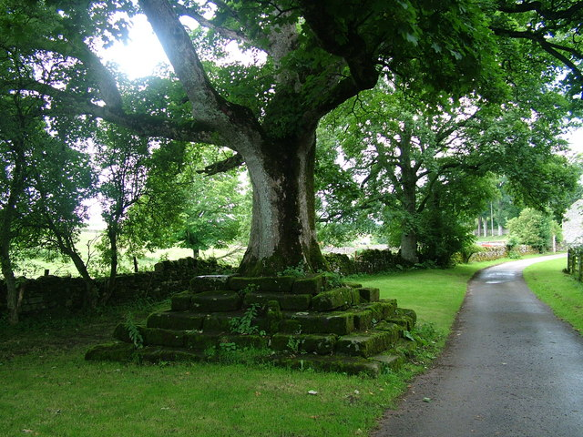 Tree at Great Ormside with seating arrangement